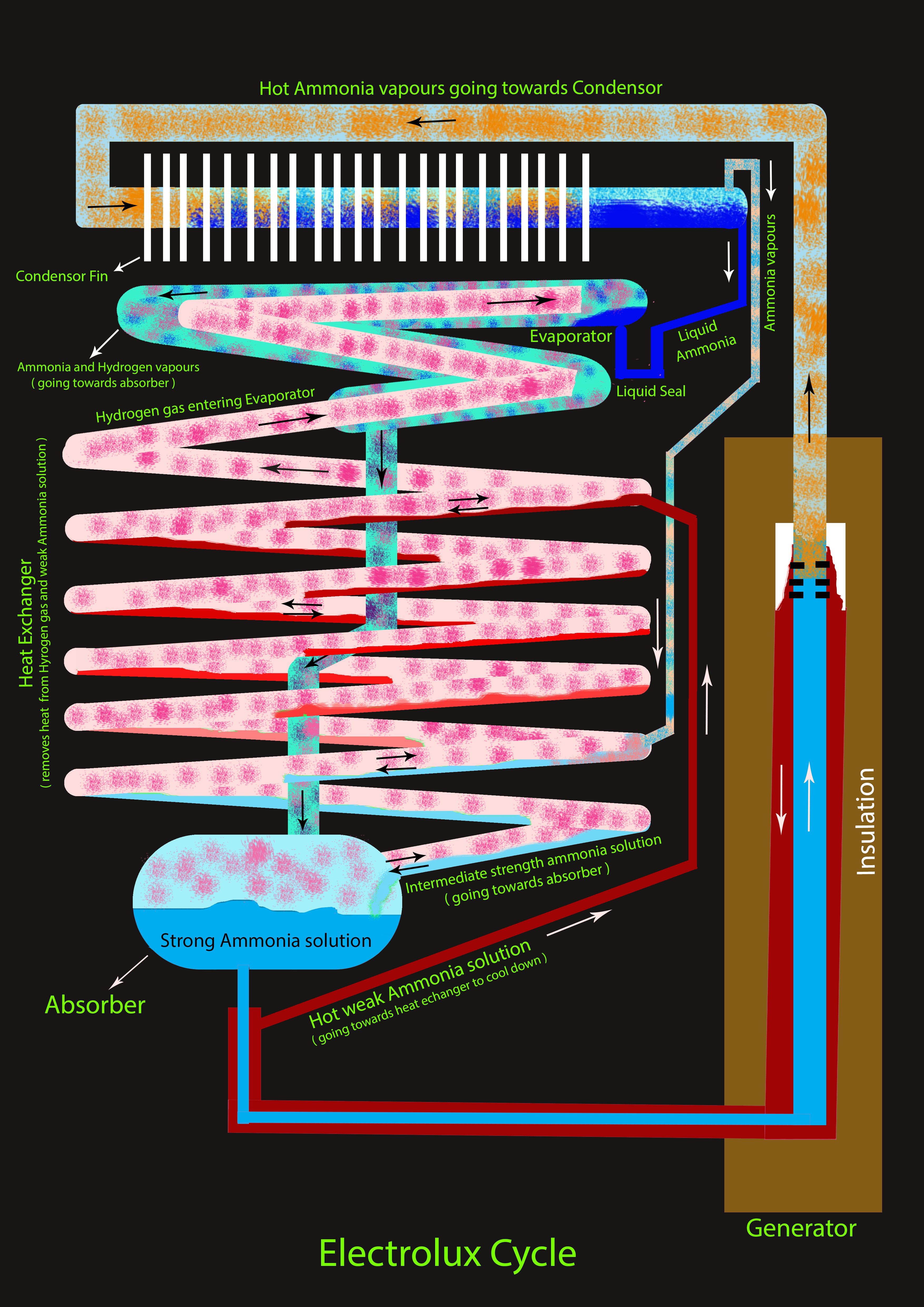 This is the dometic electrolux cycle used in refrigerators.